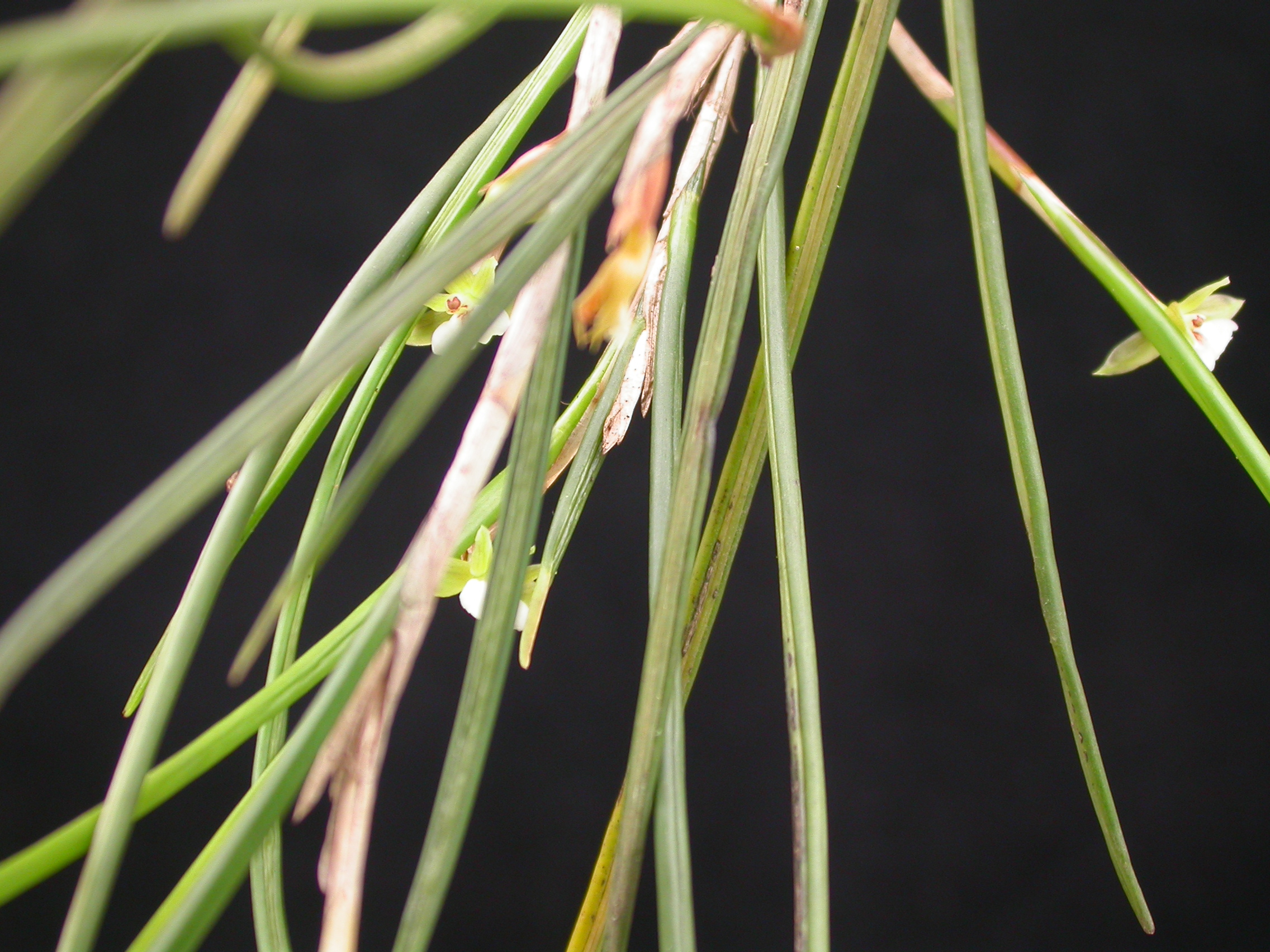 Scaphyglottis brasiliensis plant